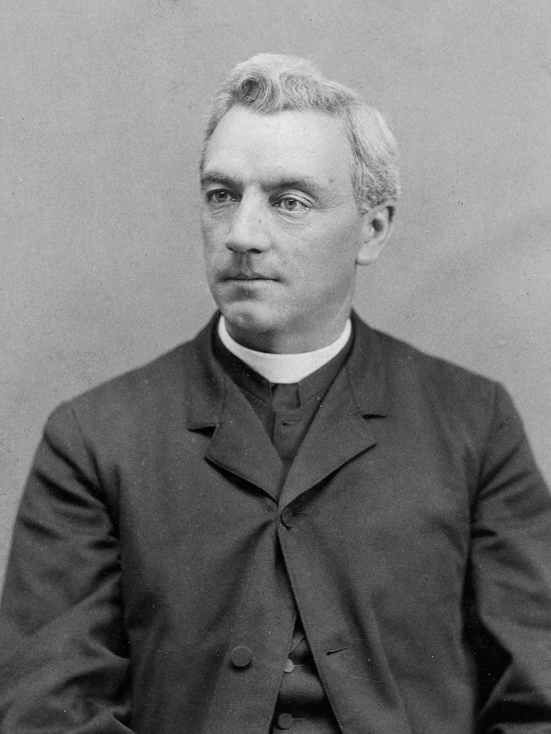 Father Patrick Francis Healy, S.J., was the first African American to receive a doctorate degree and the first to be president of a predominantly white university when he became president of Georgetown University in 1872.